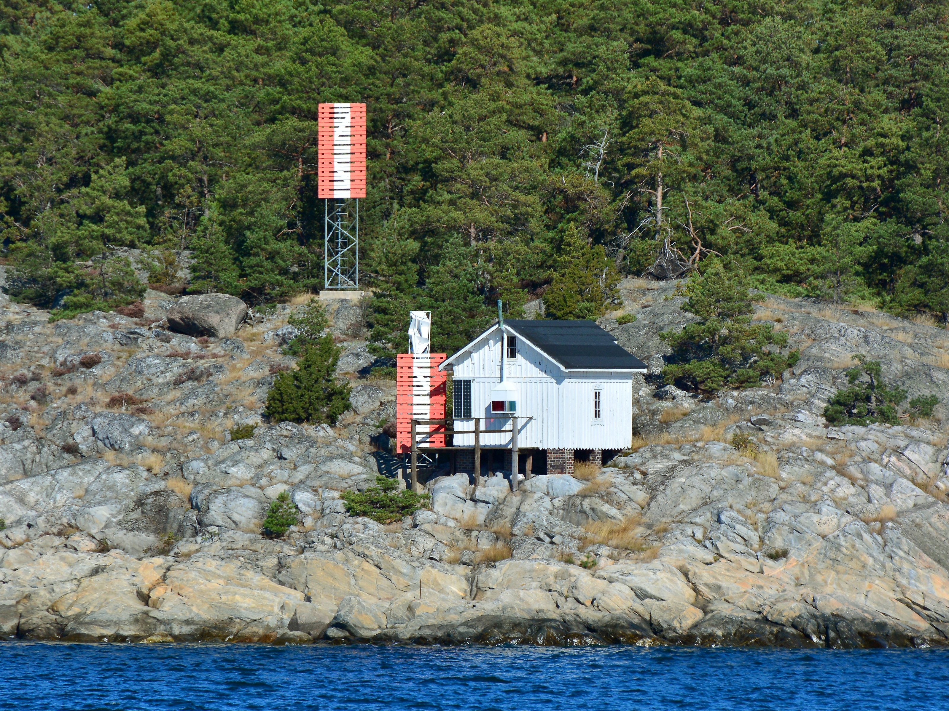 Lighthouse and range marks on Klövholmen by Kanholmsfjärden in Stockholm archipelago. The lantern is a box on the front facade of the house.